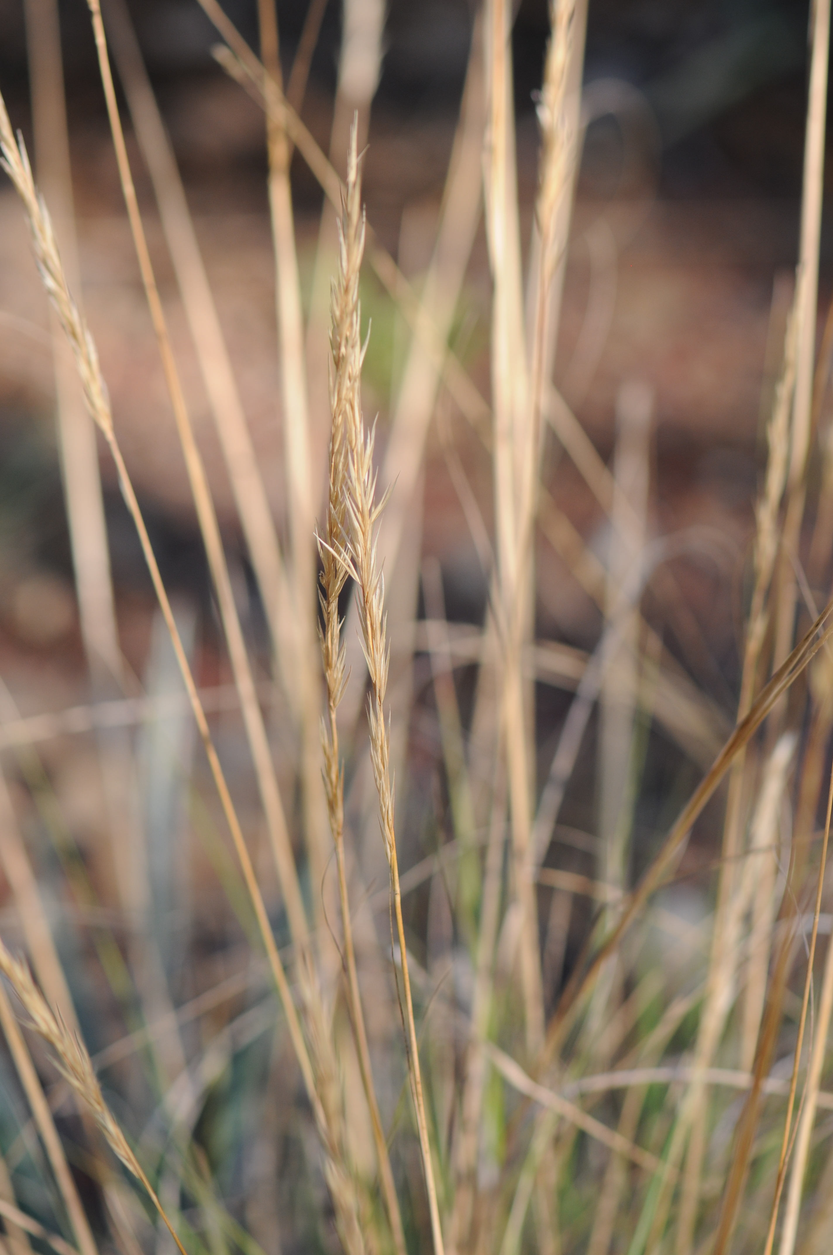 Achnatherum parishii in Regional Parks Botanical Garden. Accompanying plaque reads: "Giant Needlegrass, Achnatherum parishii, 81.187 Poaceae: Agrostideae, Near Highway 74, 3,950', Riverside County"